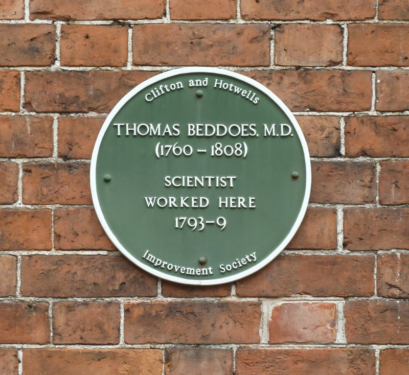 Plaque to Thomas Beddoes, 11 Hope Square, Bristol